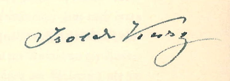 Signature of Isolde Kurz (German Poet, 1853 – 1944)